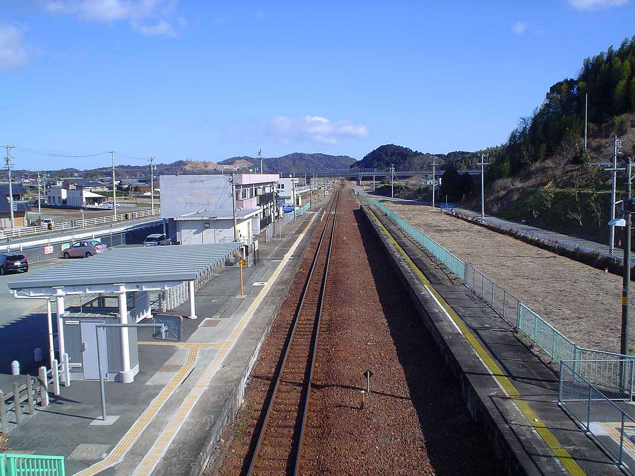 Ōka Station in Mie pref, japan. View for Ōka Station on overpass bridge.